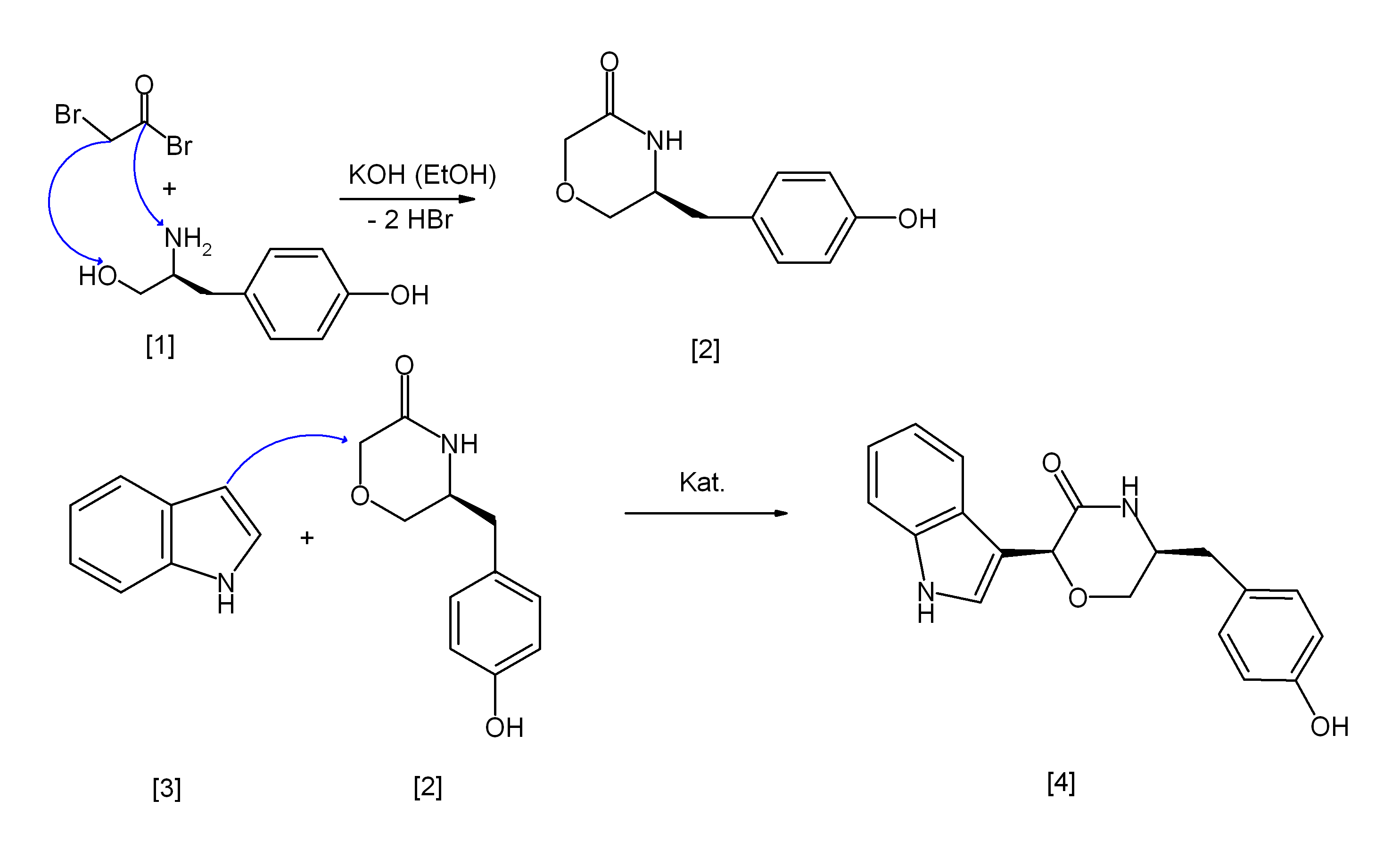 Synthesis of oxazinines